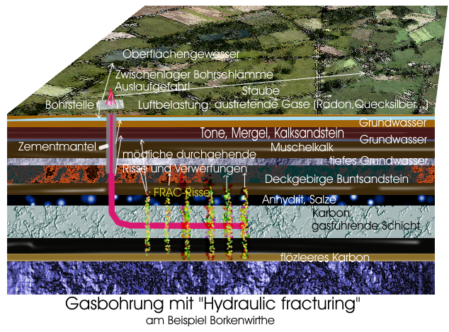 Schematic of hydraulic frakturing for coal gas and shale gas